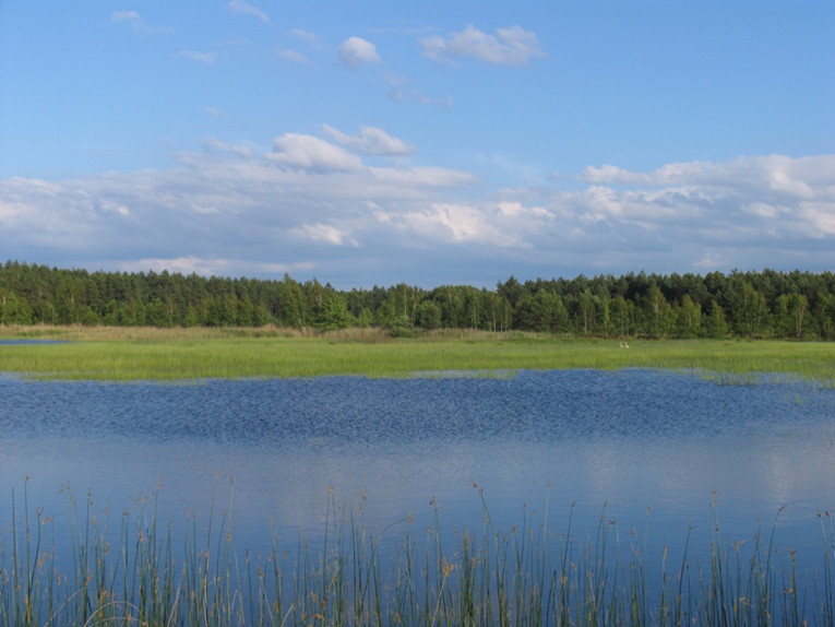 Nature reserve Stawy Bobrowickie in Poland